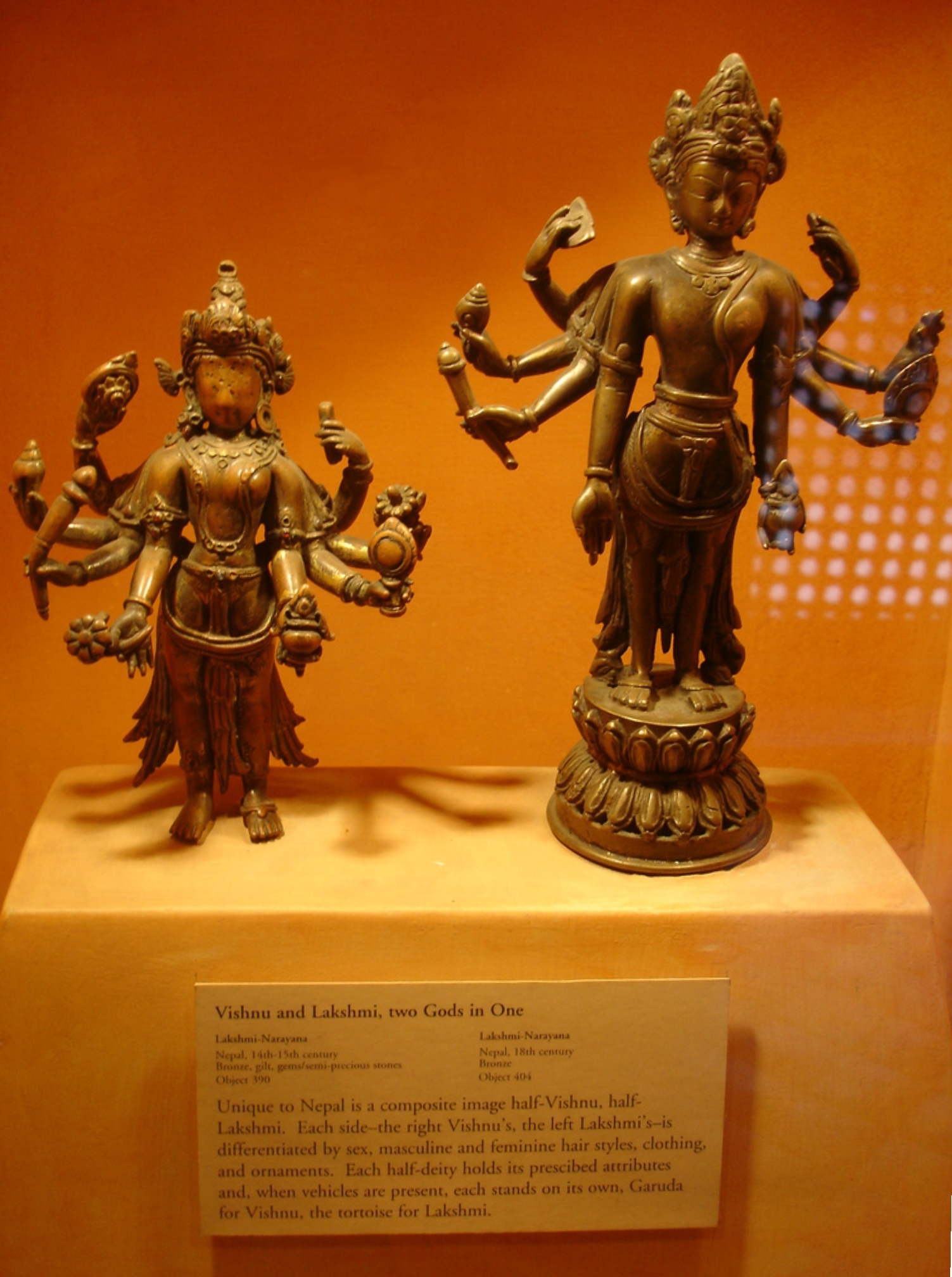 Vishnu and Lakshmi, two Gods in One. Left: Lakshmi-Narayana, Nepal, 14th-15th century, Bronze, gilt, gems/semi precious stones, Object 390. Right: Lakshmi-Narayana, Nepal, 18th century, Bronze, Object 404. Unique to Nepal is a composite image half-Vishnu, half-Lakshmi. Each side—the right Vishnu's, the left Lakshmi's—is differentiated by sex, masculine and feminine hair styles, clothing, and ornaments. Each half-deity holds its prescribed attributes and, when vehicles are present, each stands on its own, Garuda for Vishnu, the tortoise for Lakshmi.